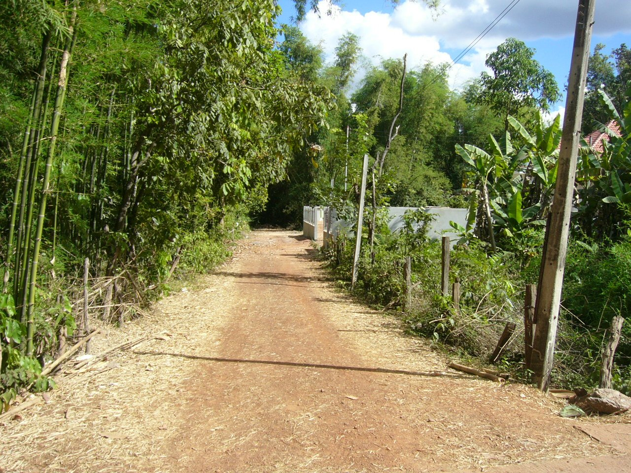 Private Gravel road in Na Khoon Yai, Nakhon Phanom Province, Thailand.